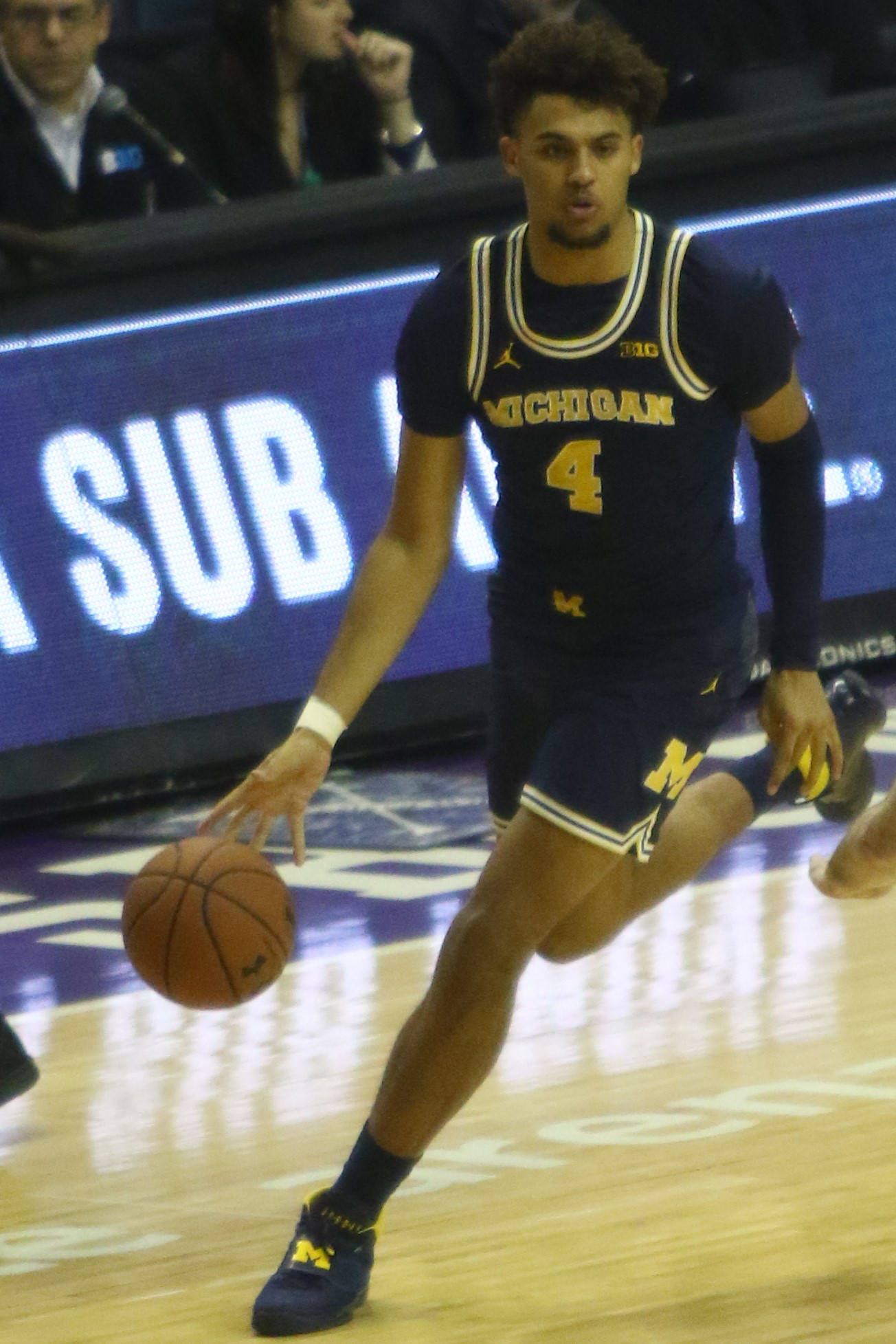 Isaiah Livers playing for the w:2017–18 Michigan Wolverines men's basketball team at Allstate Arena